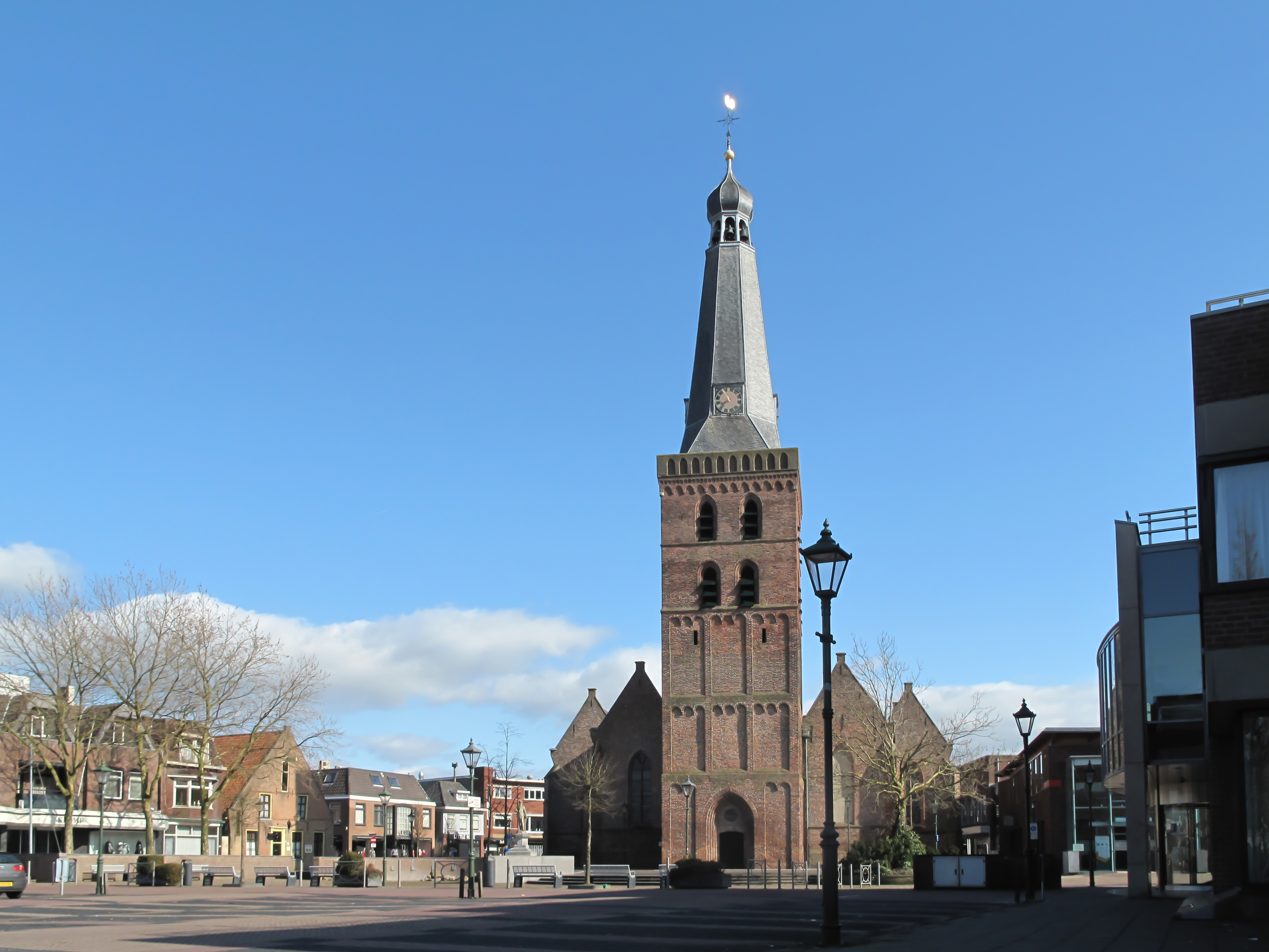 Barneveld, church: de Oude Kerk